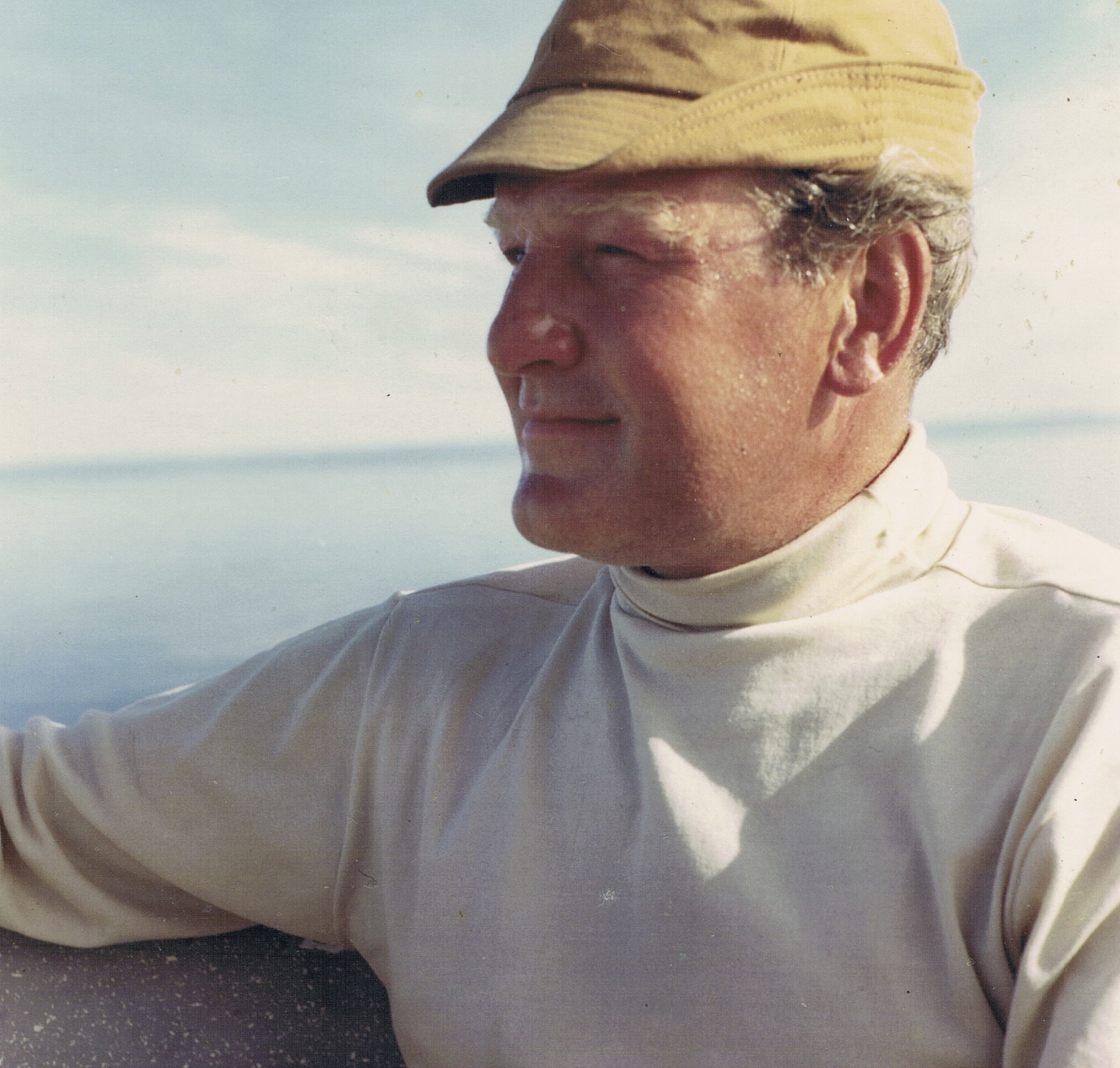 Picture of Larry Heisey , God’s Lake , Manitoba